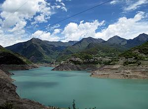 a hydroelectric power station in Sichuan